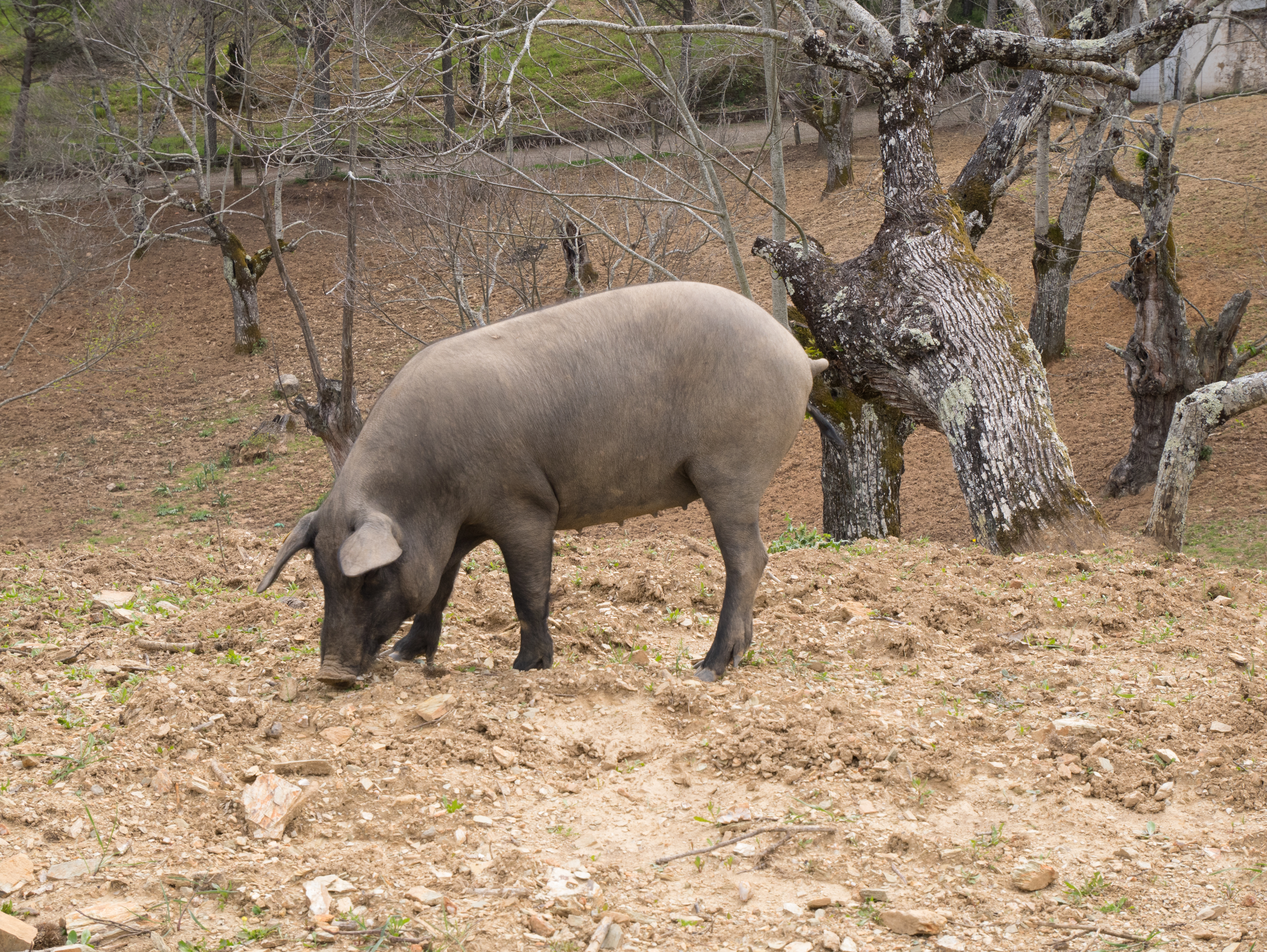 Iberian pig in Fuenteheridos, Aracena mountains. Huelva, Andalusia, Spain